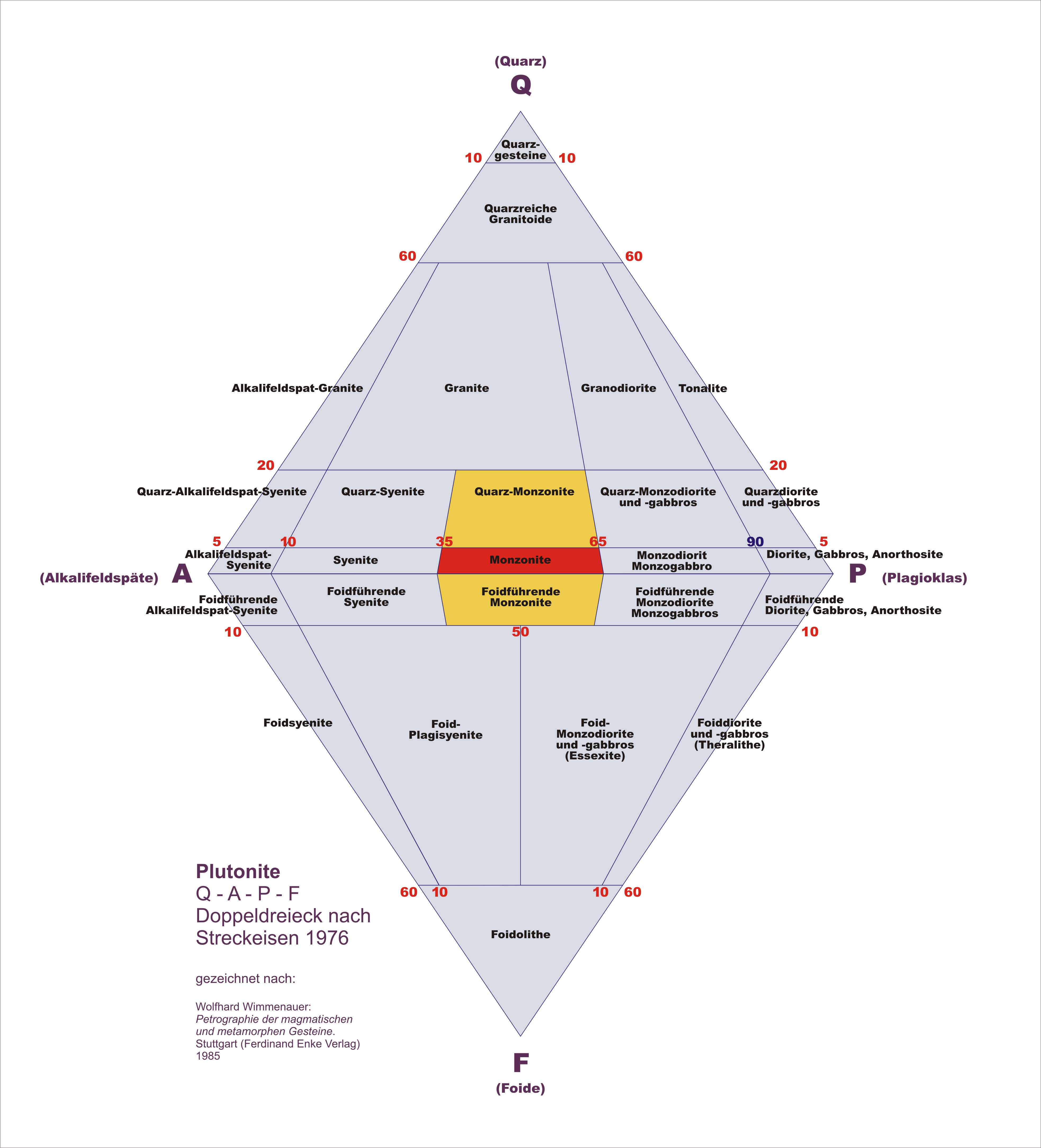 QAPF diagram (Monzonites)